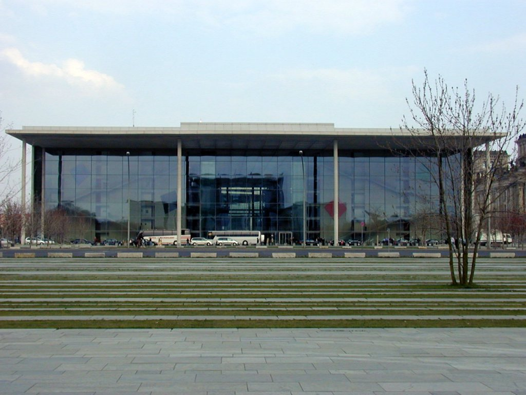 The Berlin "Paul-Löbe-Haus", a office building of the german parliament